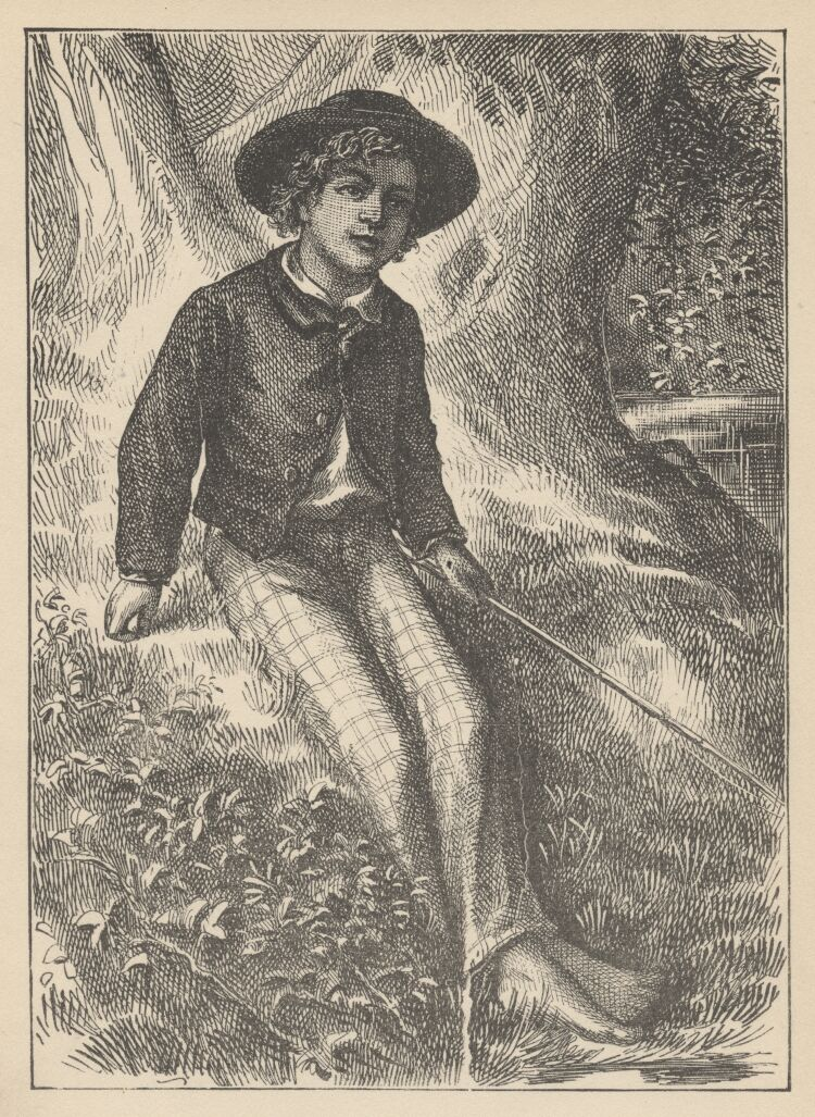 Illustrations de The Adventures of Tom Sawyer, 1876.